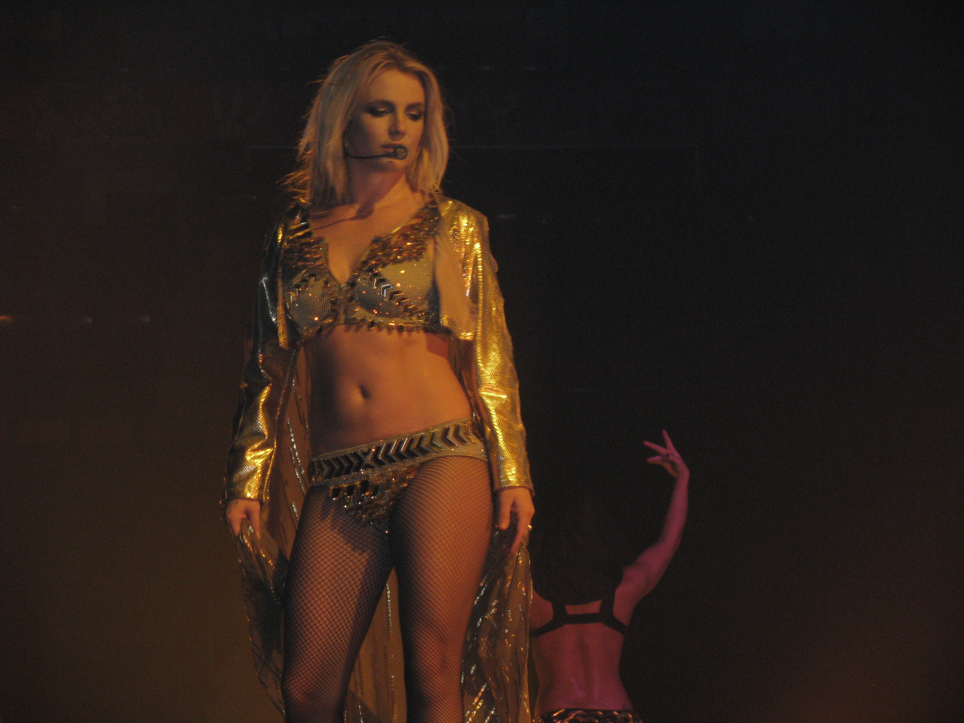 Britney Spears performing "Boys" at 2011's Femme Fatale Tour live in Canada.